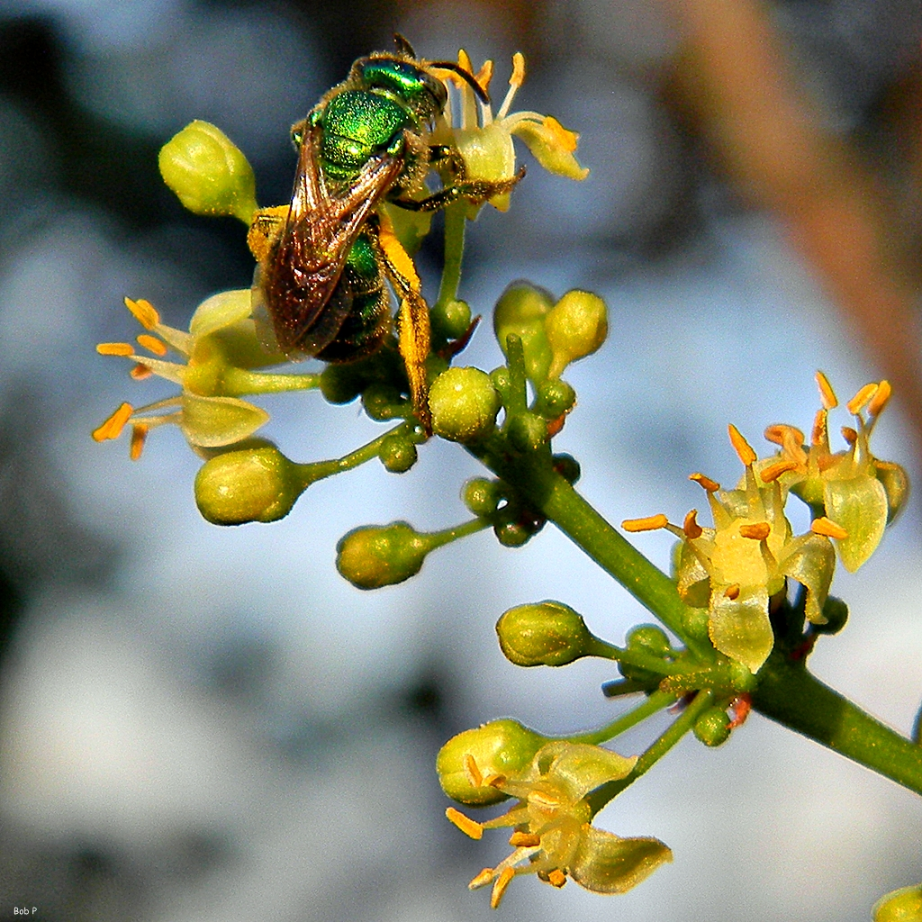 The tiny blossoms of the magnificent gumbo limbo tree shortly after sunrise. On this morning, pollinators were mostly small metallic green halictid bees and Florida carpenter ants. Munyon Island near North Palm Beach, Florida.